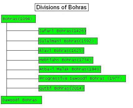 Divisions of Bohras in tabular form